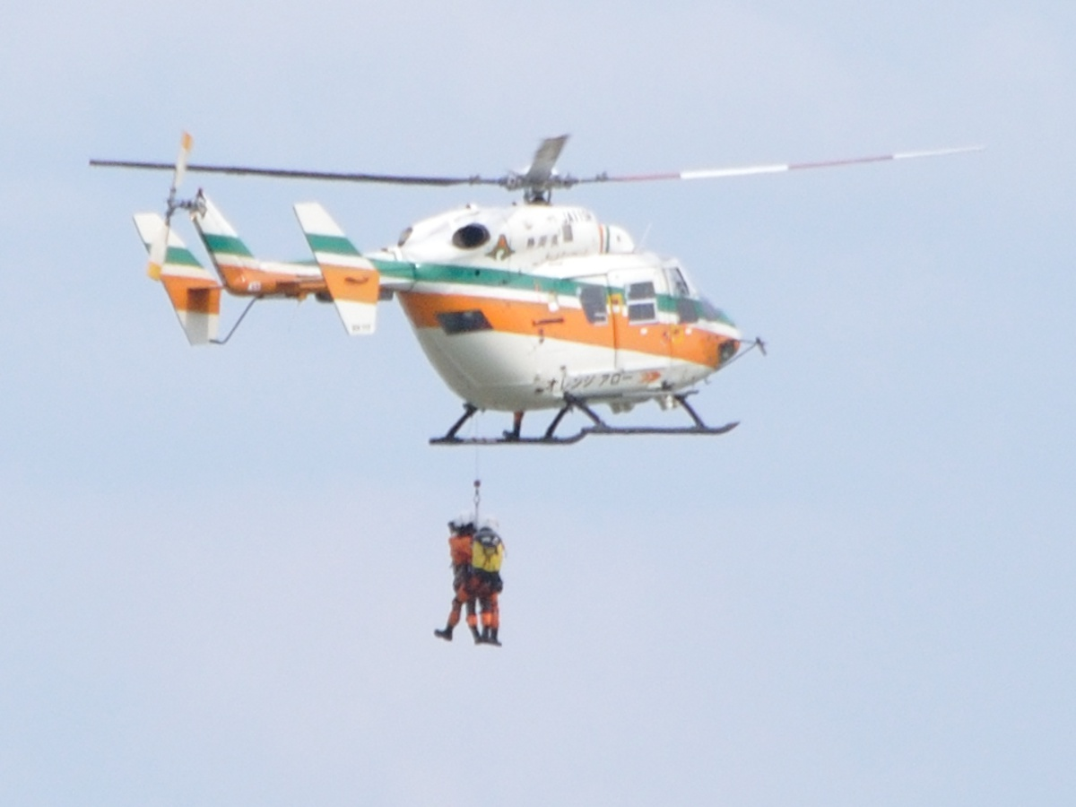 Photograph of Helitack Orange Arrow(JA119R, BK 117C-1) exterior. address Kanbara, Shimizu-ku, Shizuoka City, Shizuoka Prefecture, Japan photo date and time 14:55 May 23, 2014